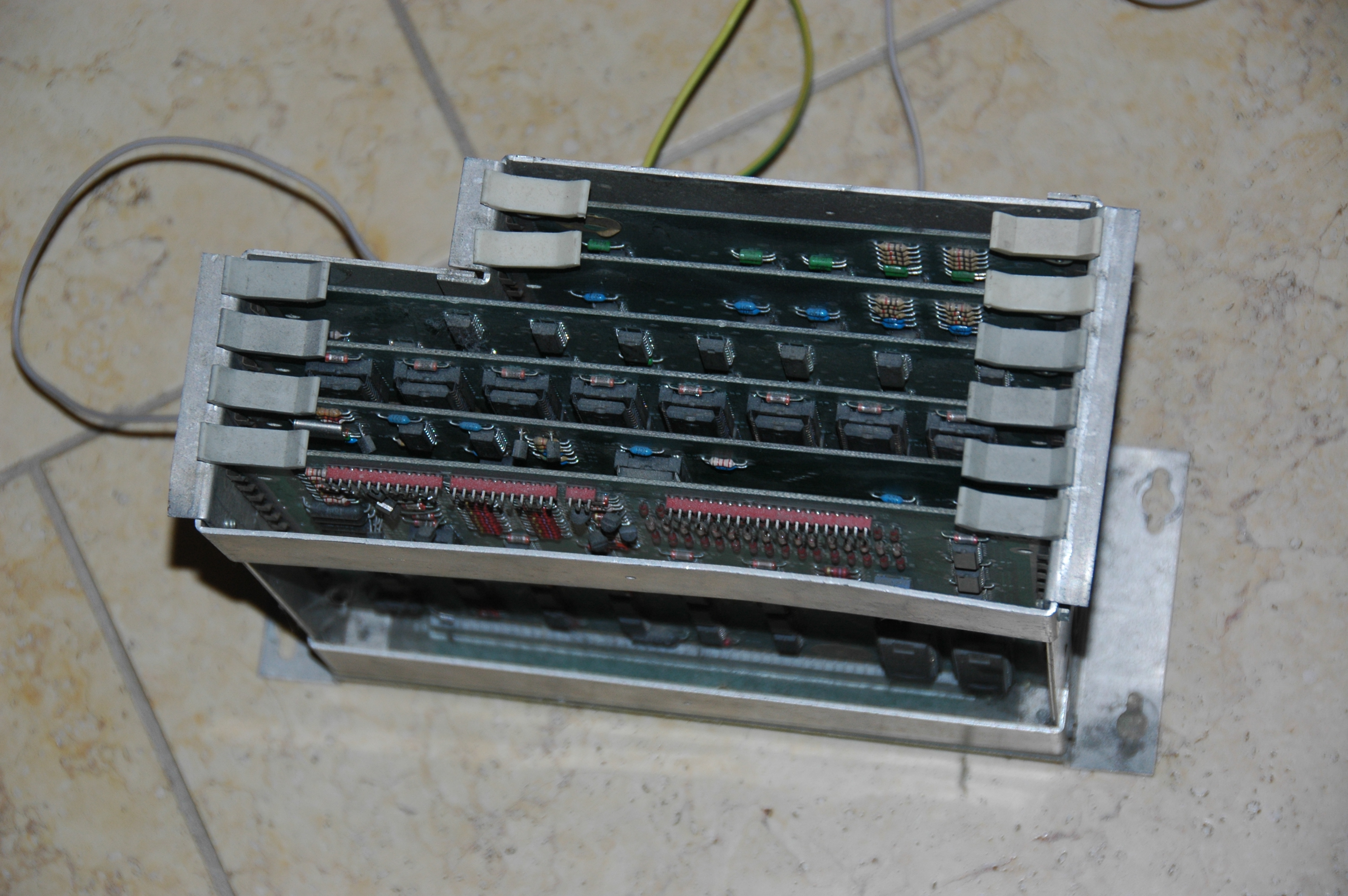 A Midway Gorf arcade game board set